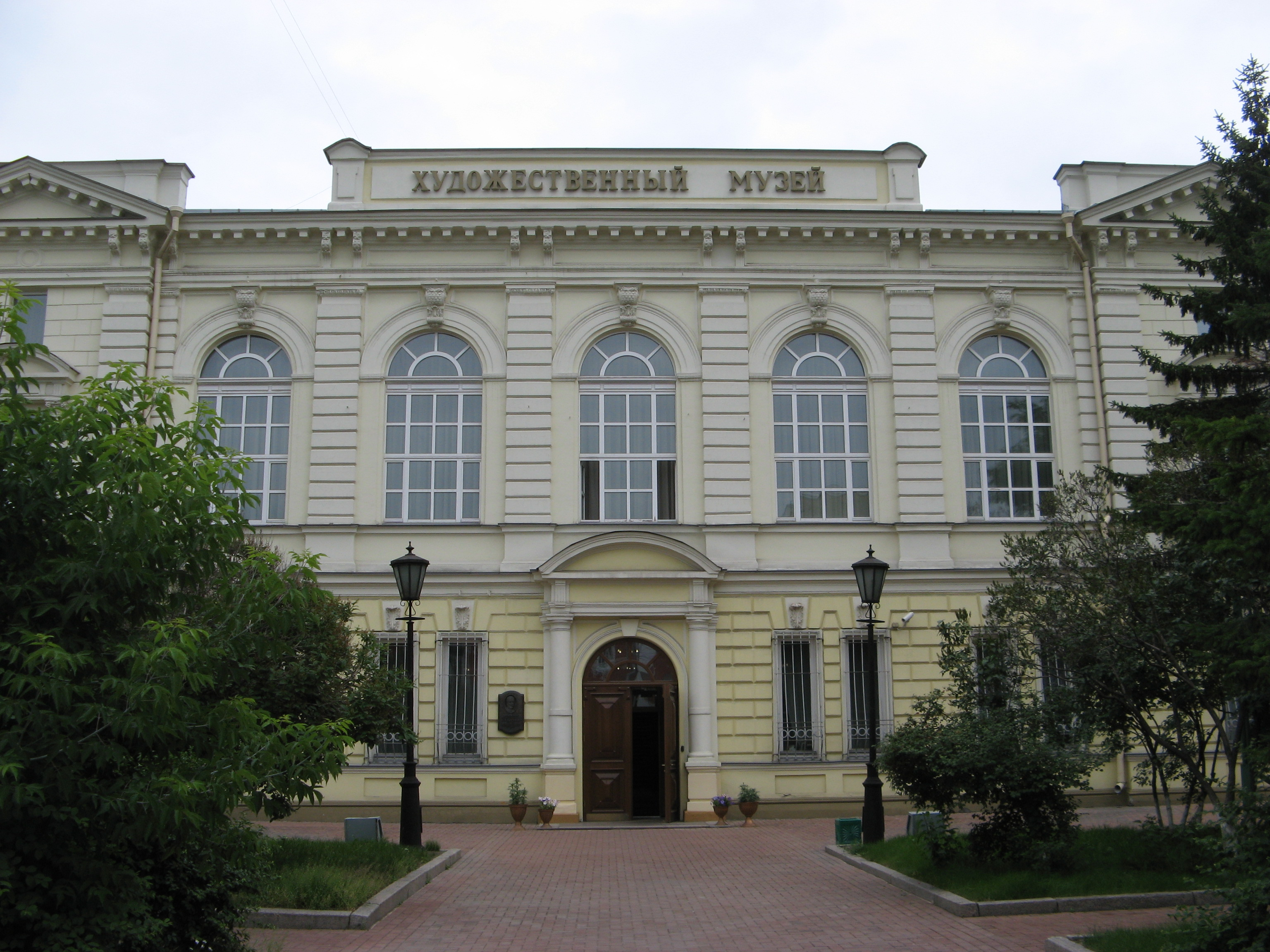 Irkutsk regional art museum after the name of V.P.Sukachov. Irkutsk, Russia